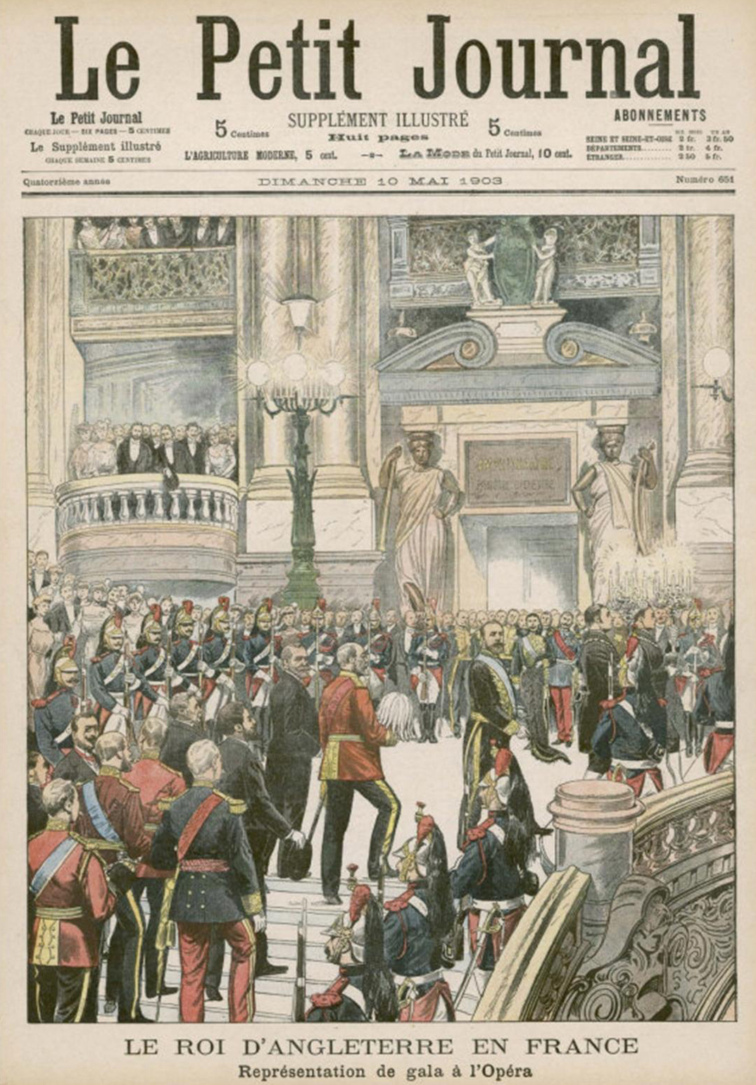 Edward VII at the Paris Opera During His State Visit to France (1903)